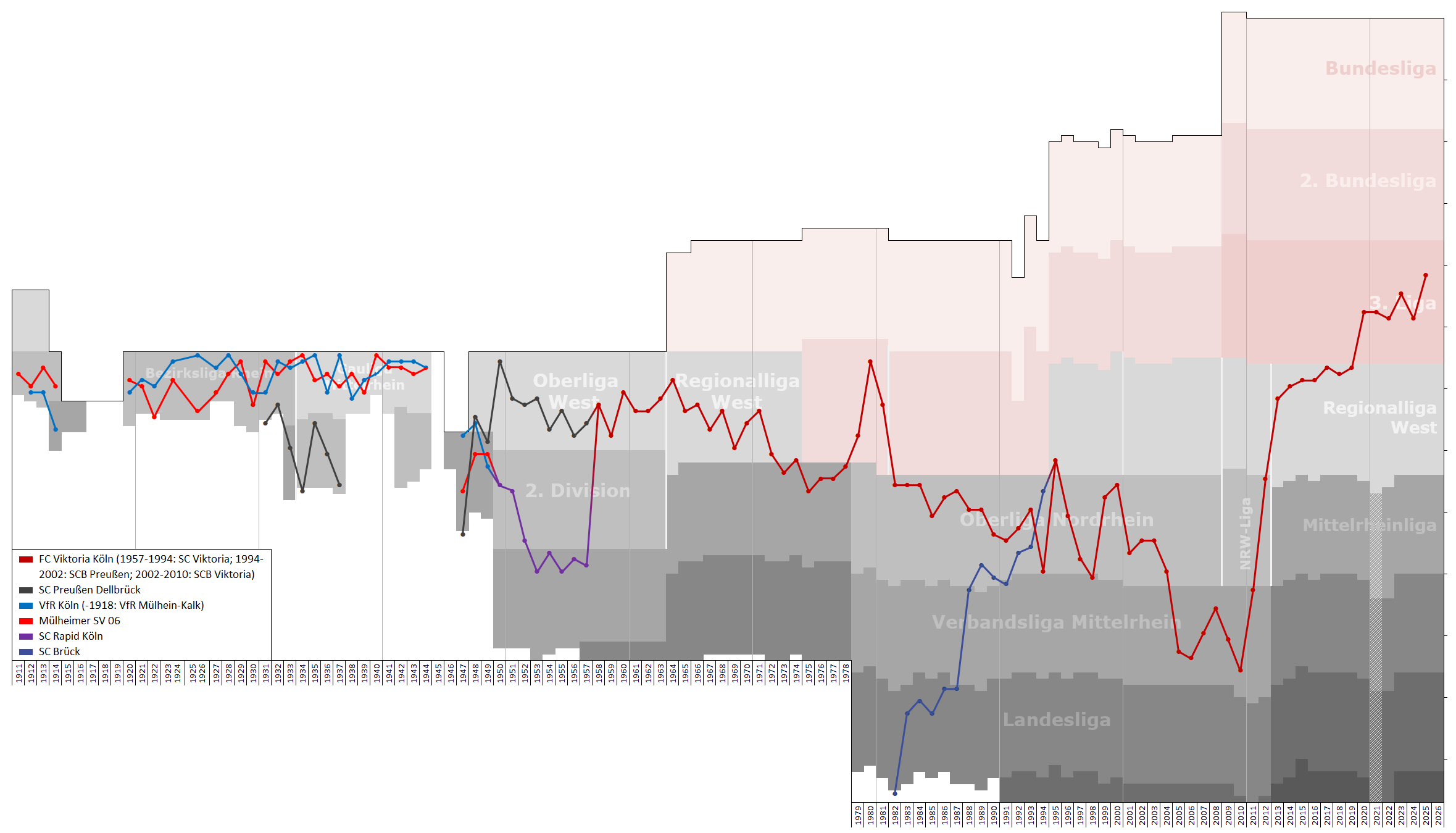 Chart of end-season table positions of Viktoria Köln in the football league system of Germany. Data source: RSSSF, wikipedia, f-archiv.de, fussball.de